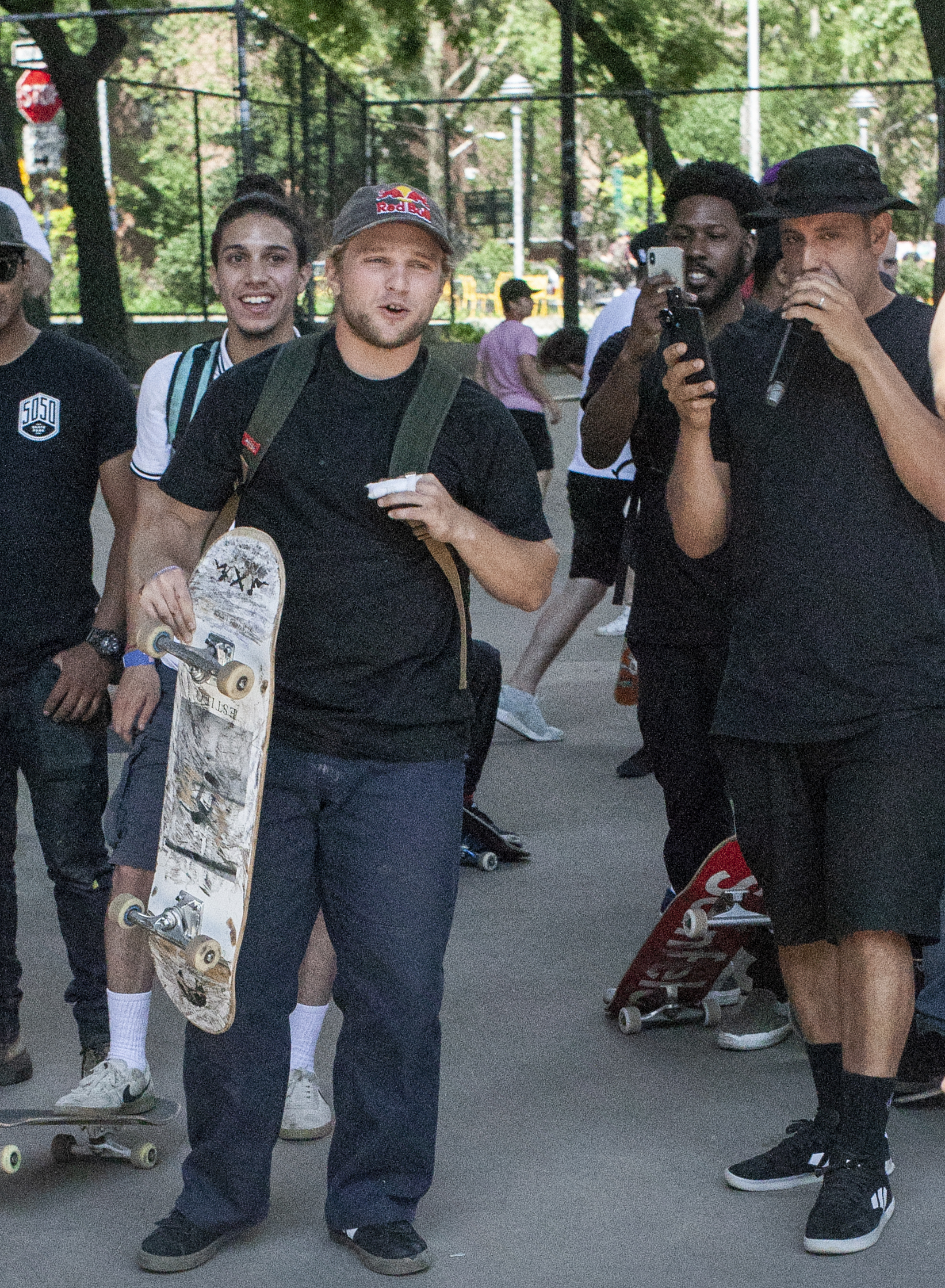 Steve Rodriguez (right, with mic) and Jamie Foy (left, with board) root Starlin Polanco on, during Best Trick Contest at LES Skatepark June 2019 hosted by Red Bull Skate.